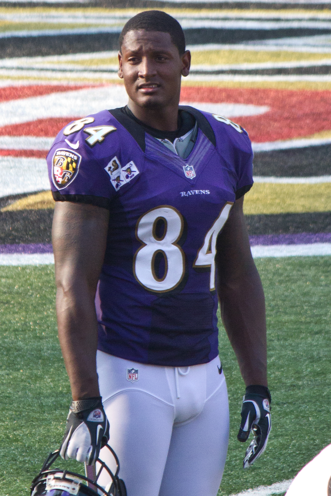 Ed Dickson at Ravens M&T Bank Stadium practice in August 2012